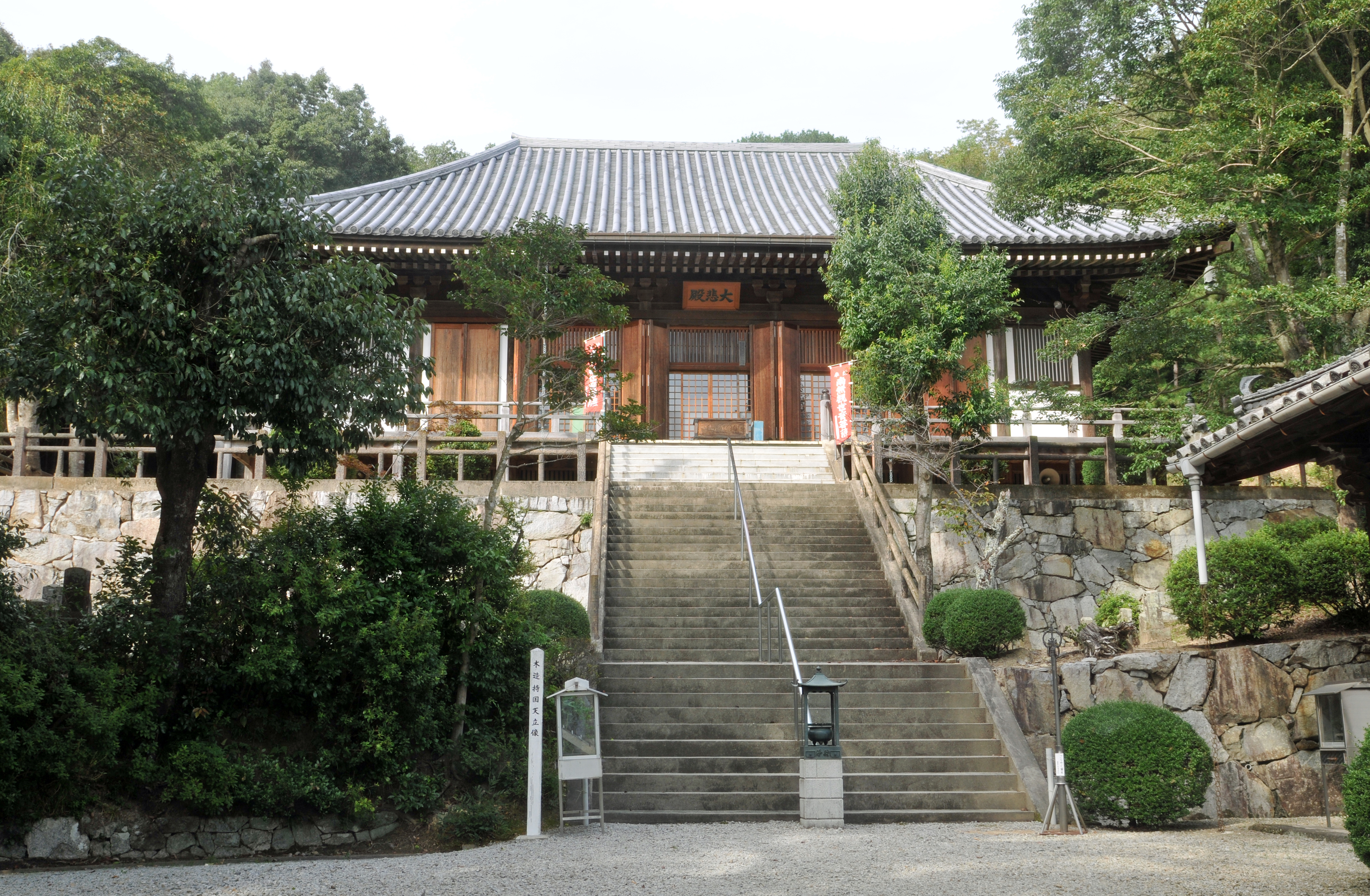 Main Hall, Shakuō-ji